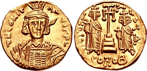 Constantine IV Pogonatus, with Heraclius and Tiberius. 668-685. AV Solidus (18mm, 4.41 g, 6h). Constantinople mint, 4th officina. Struck 668-673. Helmeted and cuirassed bust facing slightly right, holding spear and shield / Cross potent set on three steps; at sides, Heraclius and Tiberius standing facing, each holding globus cruciger; Δ//CONOB. DOC 6d; MIB 5c; SB 1153. Near EF.